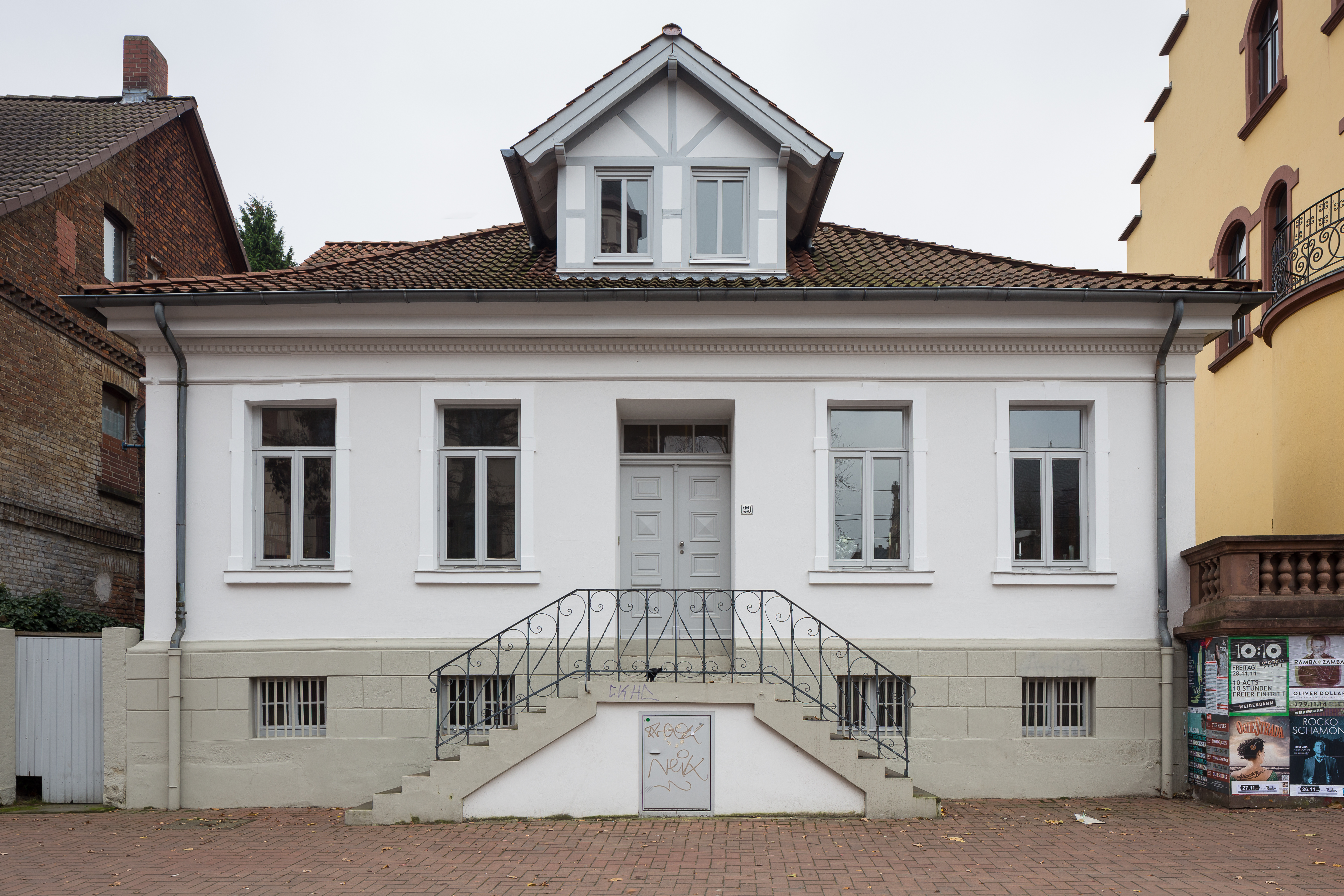 Apartment house located at Davenstedter Strasse no. 29 in Linden-Mitte district of Hannover, Germany. The house was probably errected around 1850.